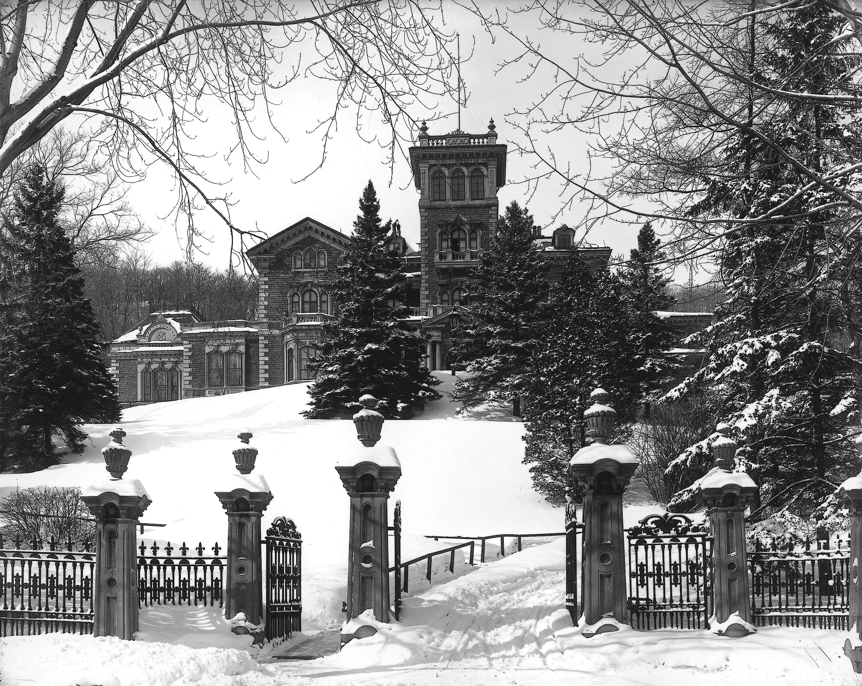 "Ravenscrag", Hugh Montagu Allan's residence, Montreal, Quebec, Canada 1901 1901, 20th century, Silver salts on glass - Gelatin dry plate process, 20 x 25 cm